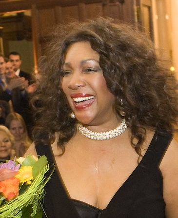 Mary Wilson at Spaso House